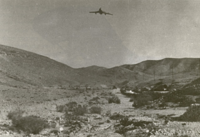 Dassault Mystère above Mitla Pass